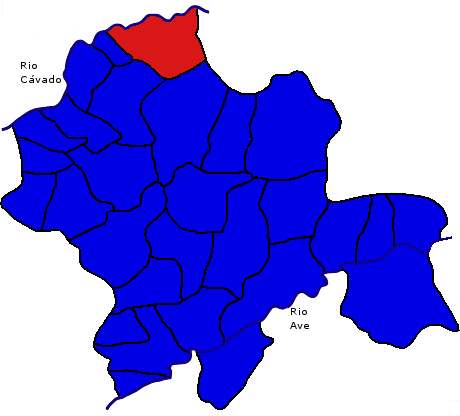 Map of Friande in Povoa de Lanhoso, Portugal